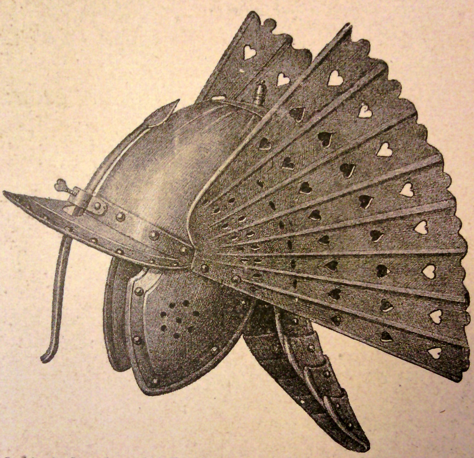 Sobieski´s helmet in Battle of Vienna, 1683